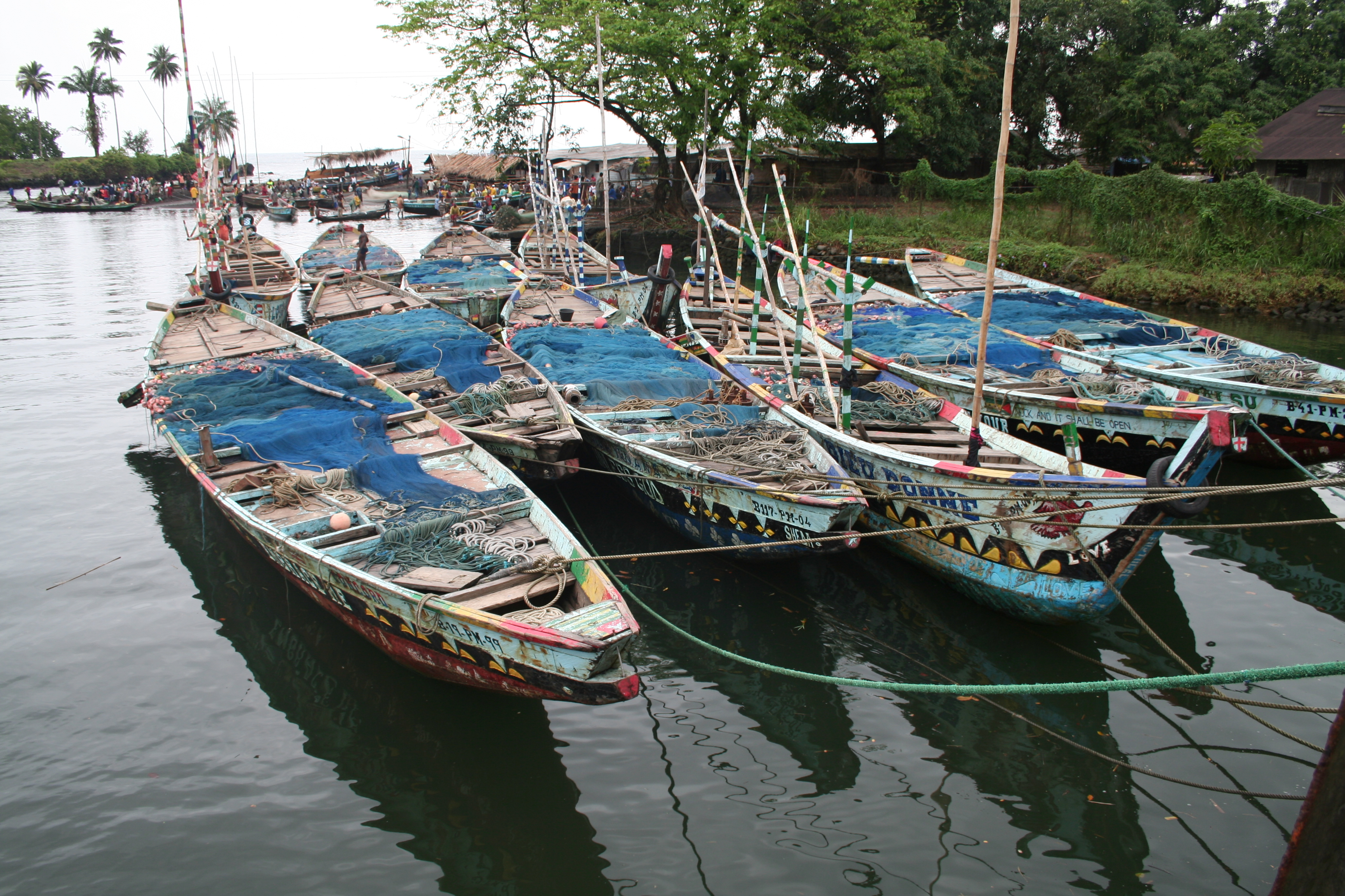 Fisher boats in Idenau, NW Cameroon